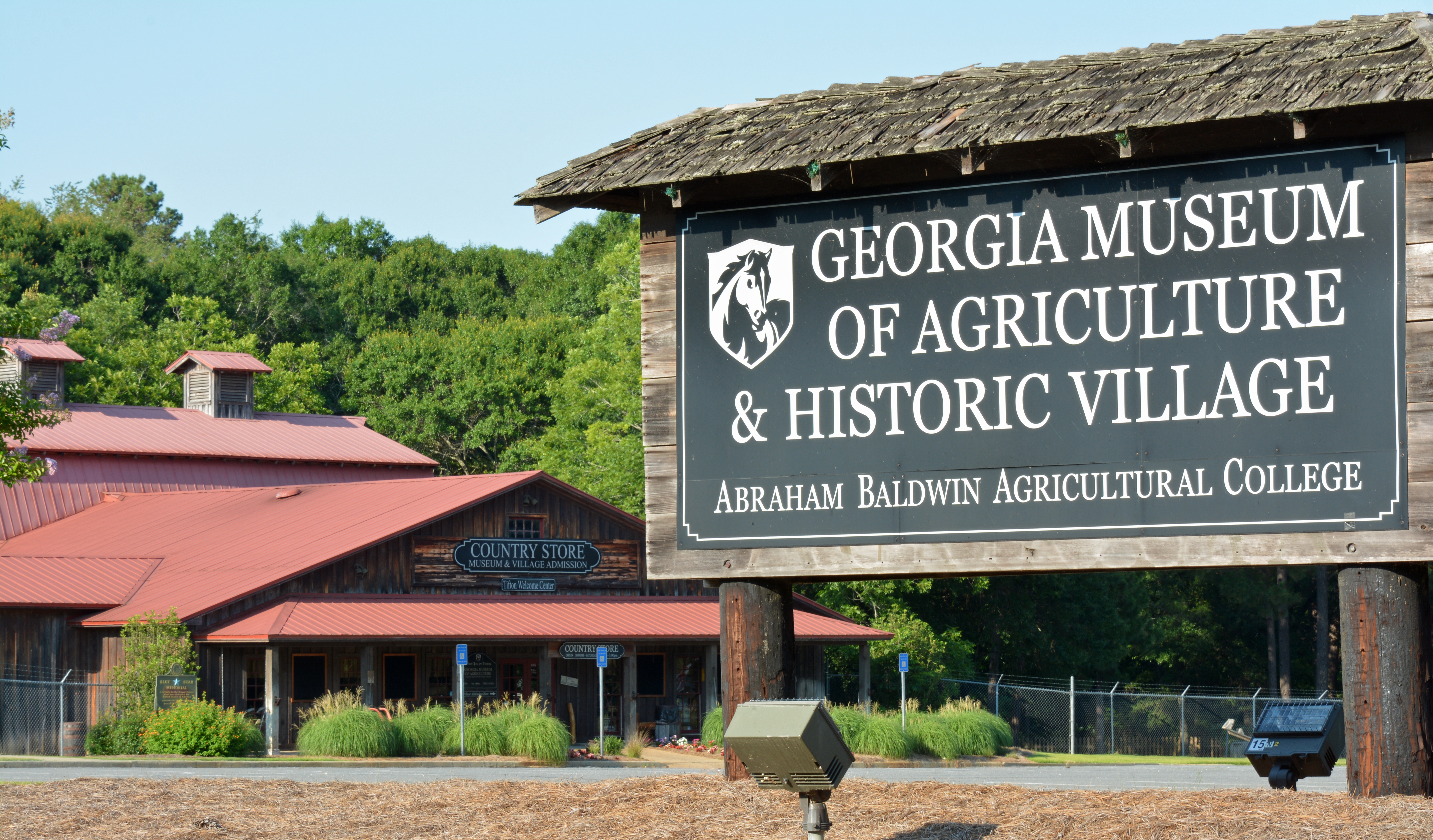 Entrance to the Georgia Museum of Agriculture & Historic Village, Tifton, Georgia, U.S. Originally named the "Agrirama".